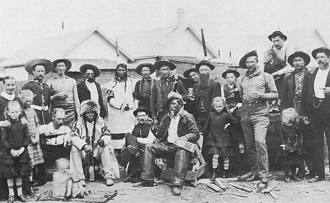 Halifax Provisional Battalion Medicine Hat3